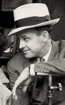 Director Richard Thorpe on the set of Cheating Cheaters (1934) - publicity still